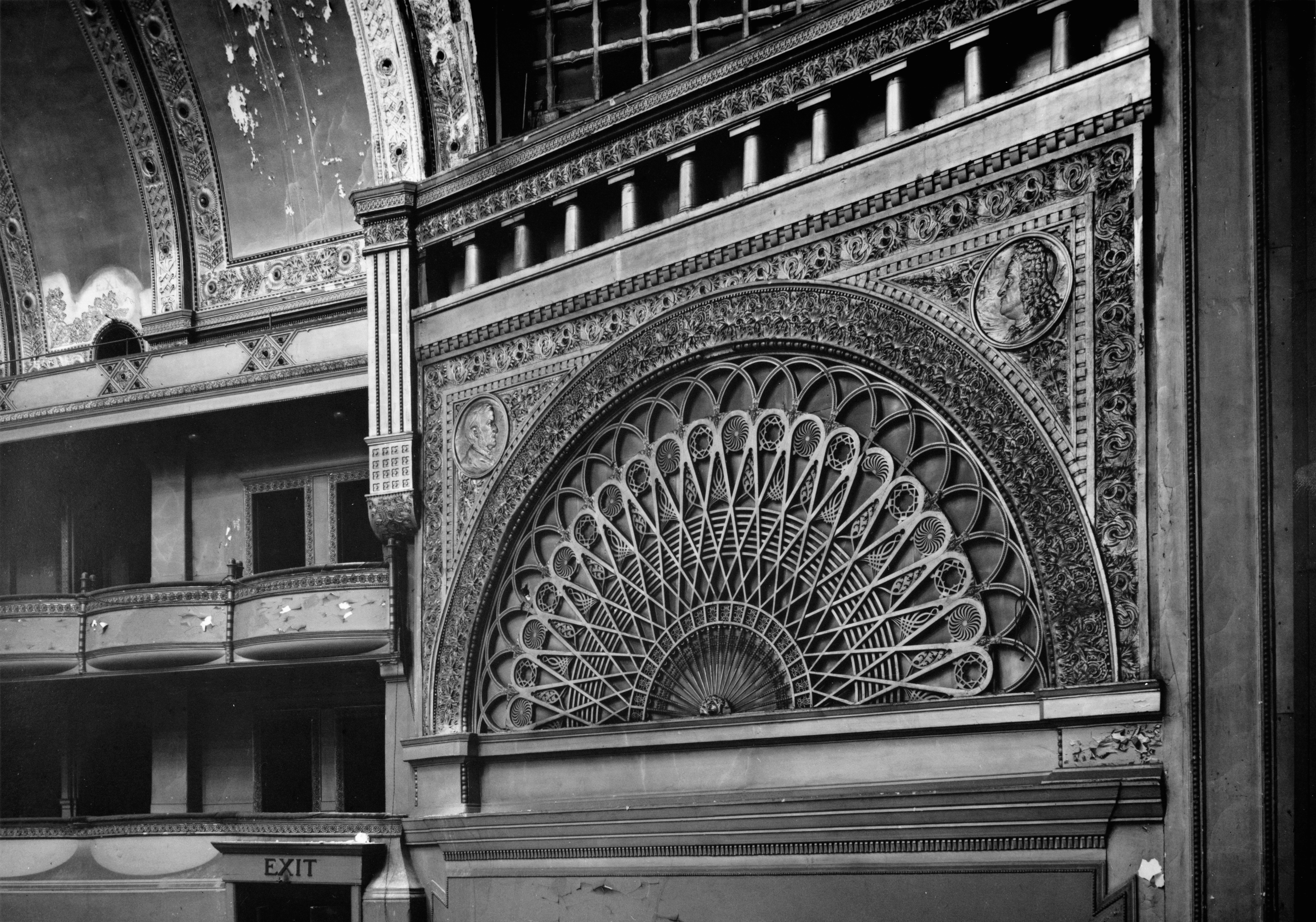 Auditorium Building, Chicago. Interior: theatre detail.